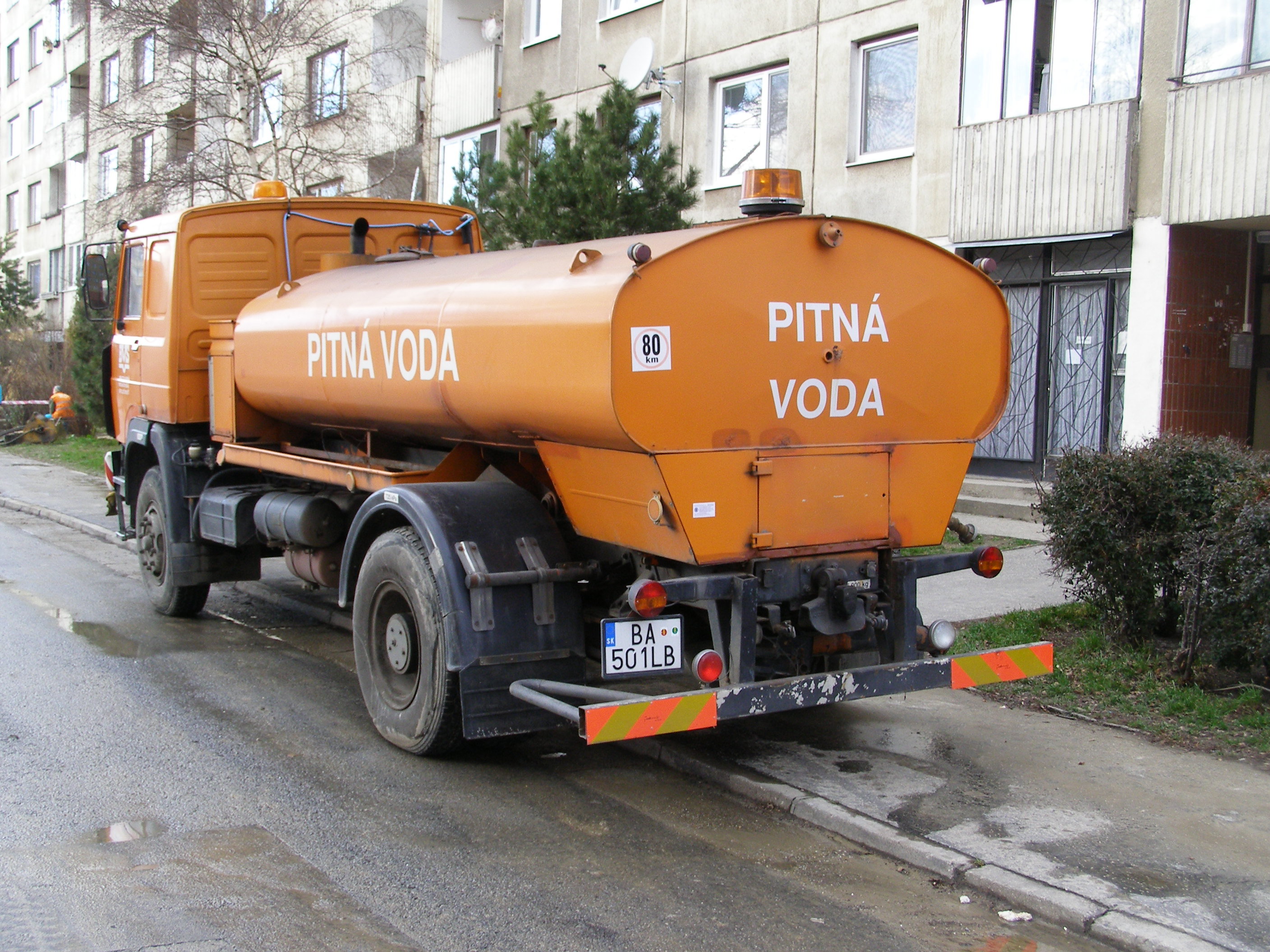 LIAZ "Drinking Water" Car, Fedinova street, Bratislava, Slovakia